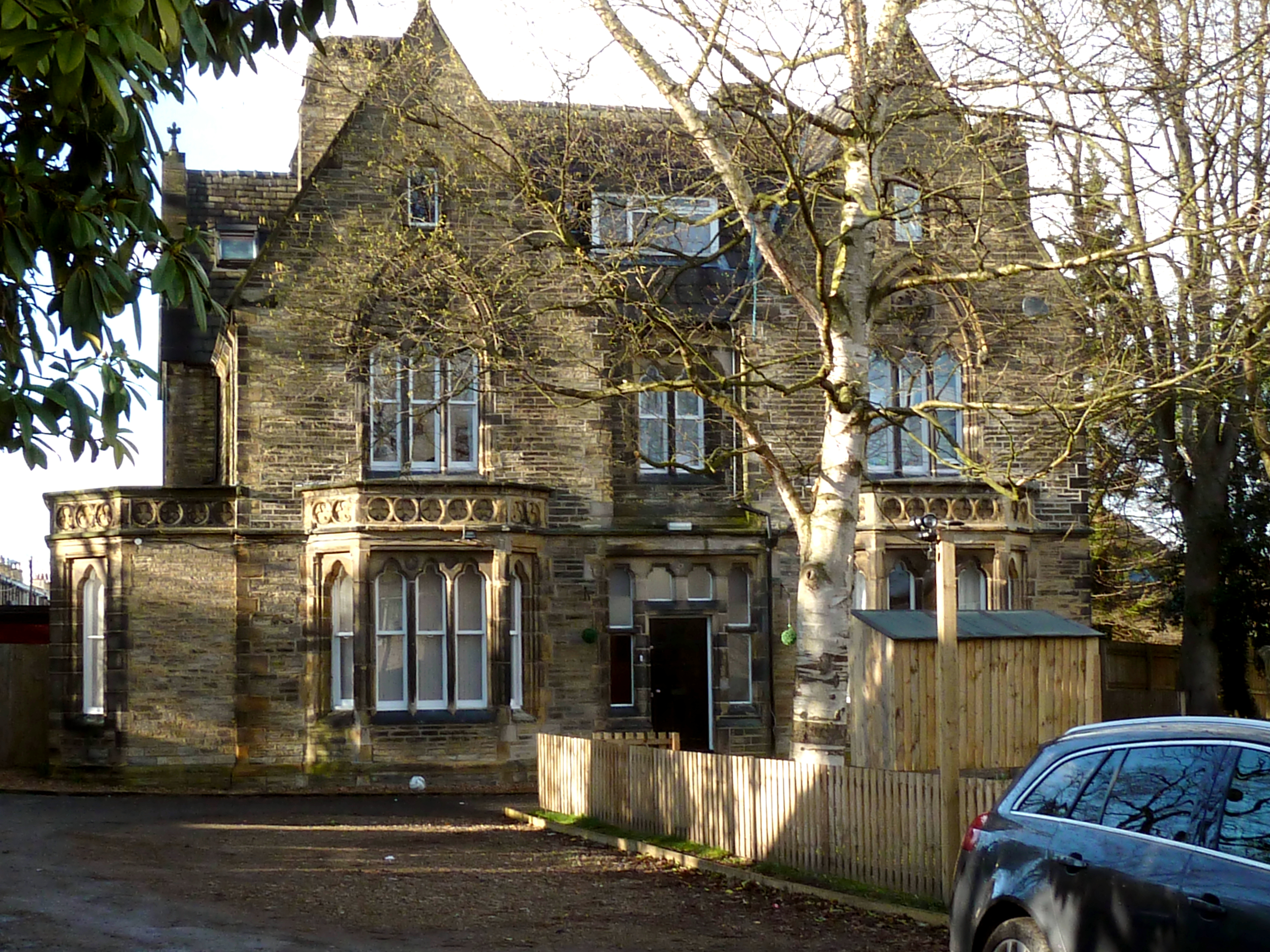 All Saints Vicarage, Dudwell, now known as Stafford Hall, off Huddersfield Road, Skircoat Green, Halifax, West Yorkshire. It was designed by architect William Swinden Barber in 1861 and is owned by Kirklees Council. In 2010 it was derelict, but the Council has re-opened it as a children's home. There is no public access to this building.